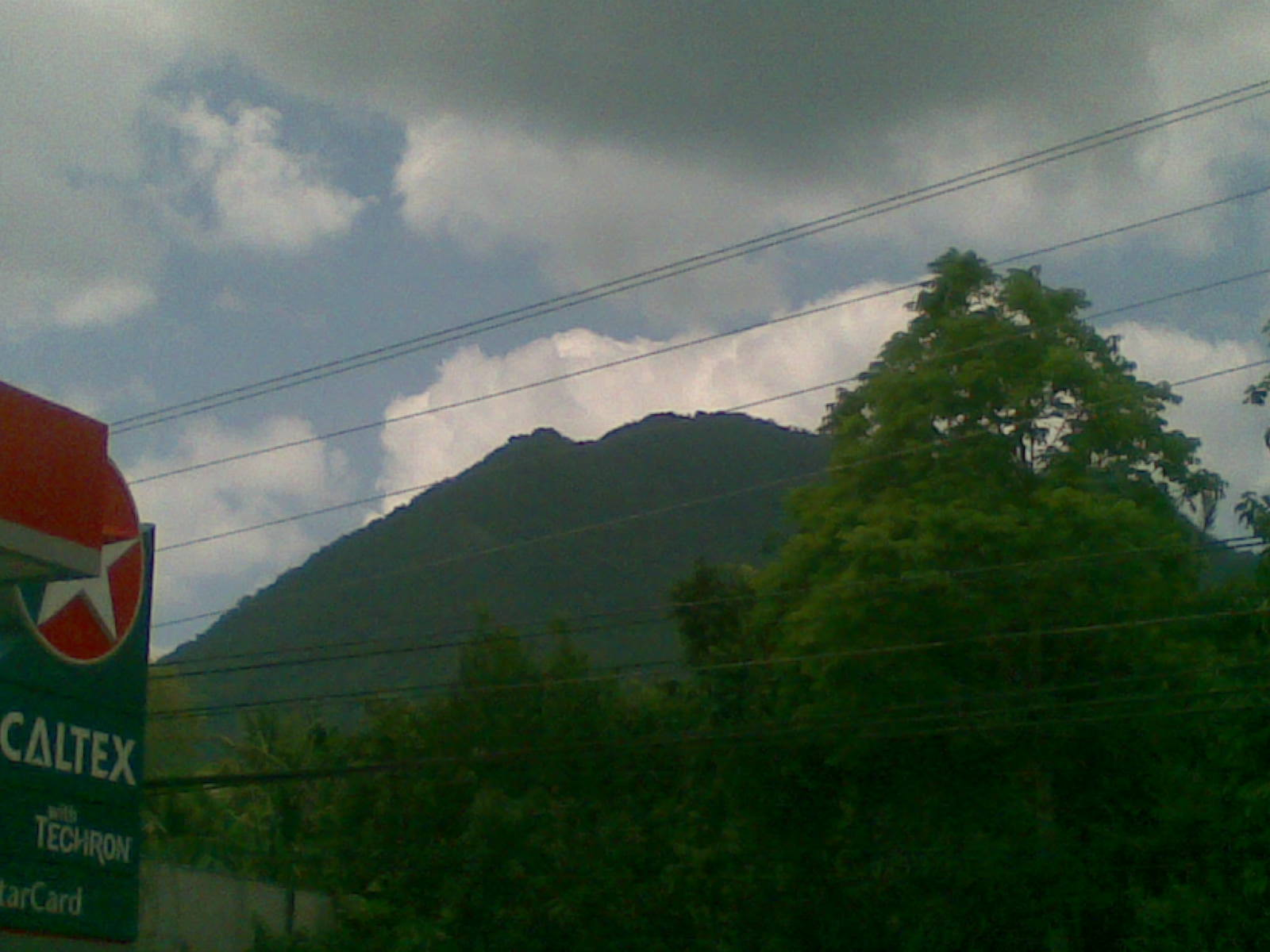 This image depicts Mount Maculot located in the Municipality of Cuenca, Province of Batangas, Philippines. Tagalog: Ipinapakita ng larawang ito ang Bundok Maculot na matatagpuan sa Munisipalidad ng Cuenca, Lalawigan ng Batangas, Pilipinas.